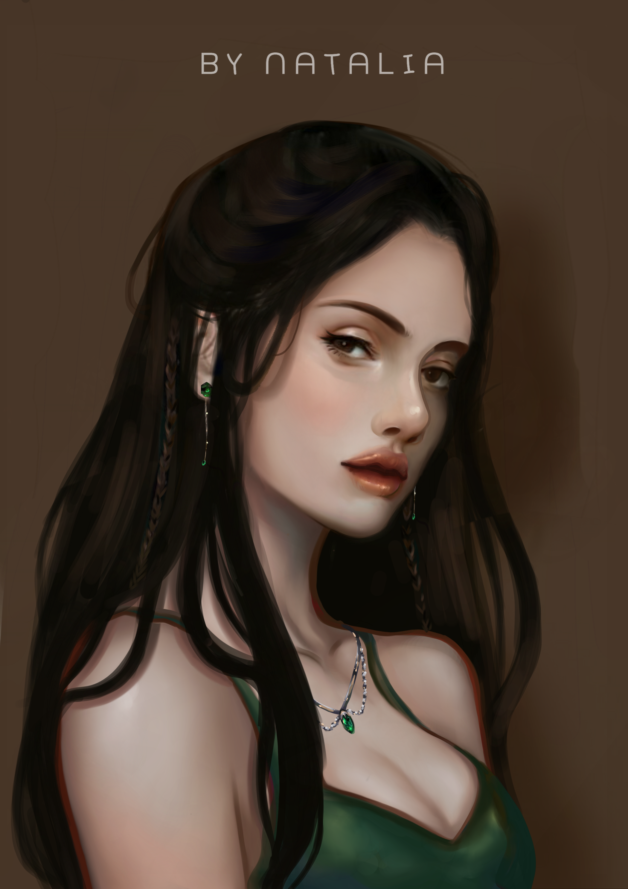 it is a draw, made my own about denna, hope all of you will enjoy it.